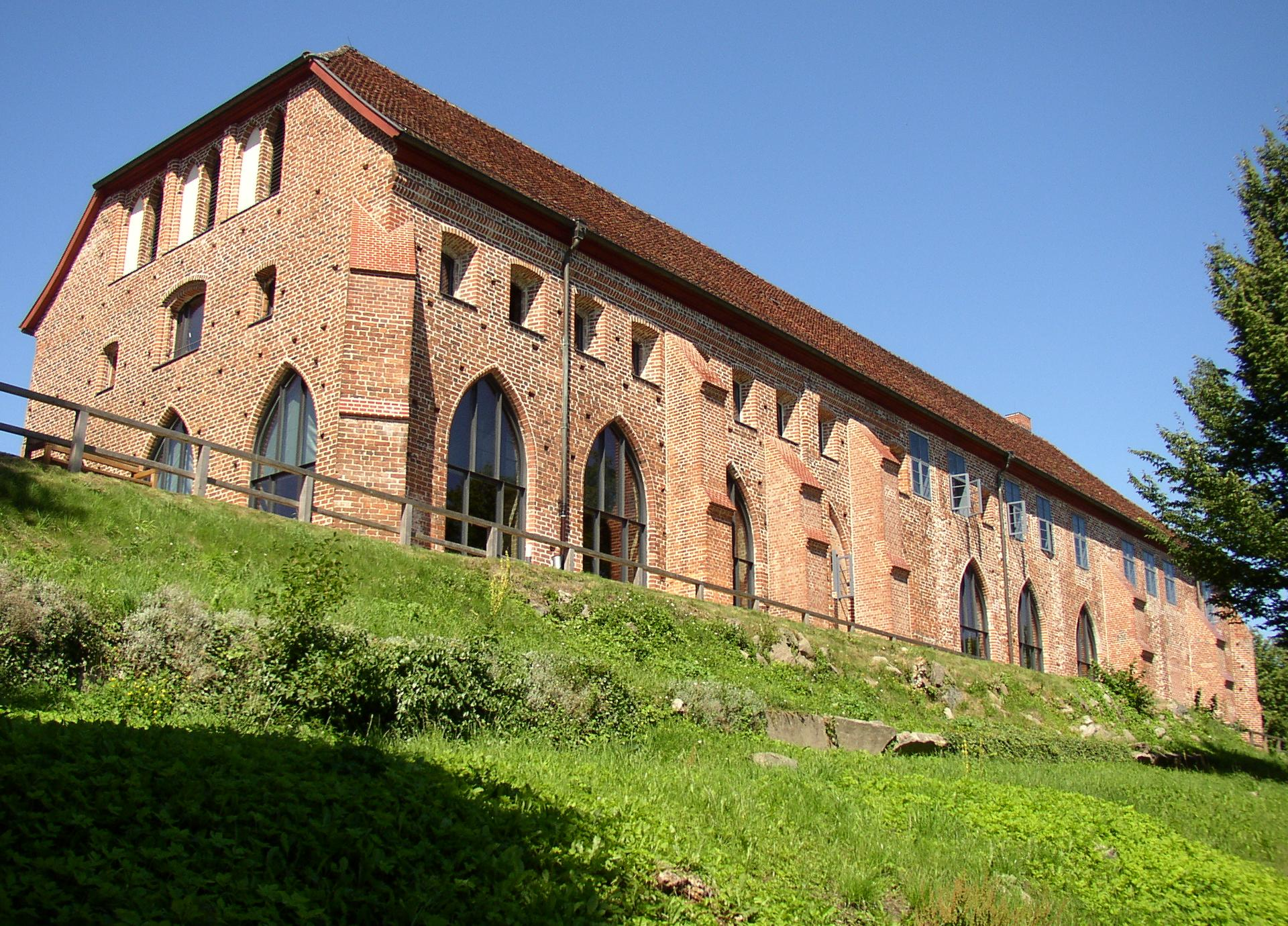 Convent building in Zarrentin in Mecklenburg-Western Pomerania, Germany